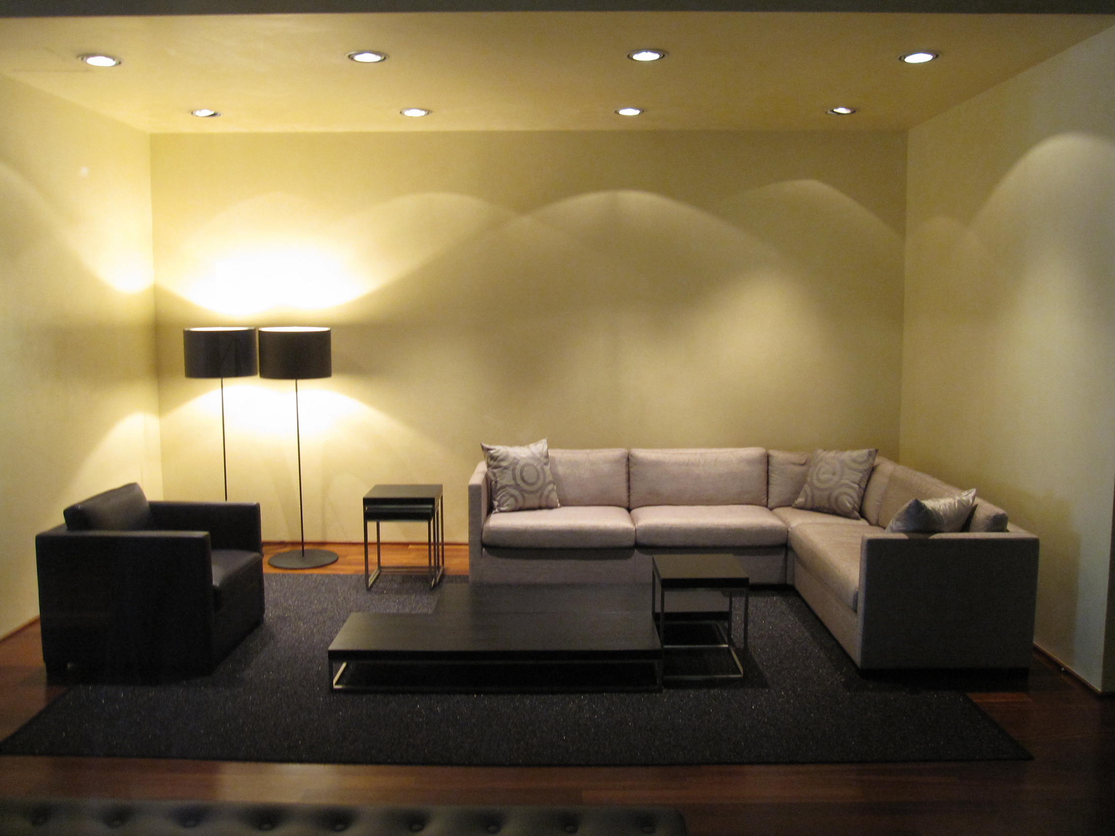 Wittmann Möbelwerkstätten in Vienna